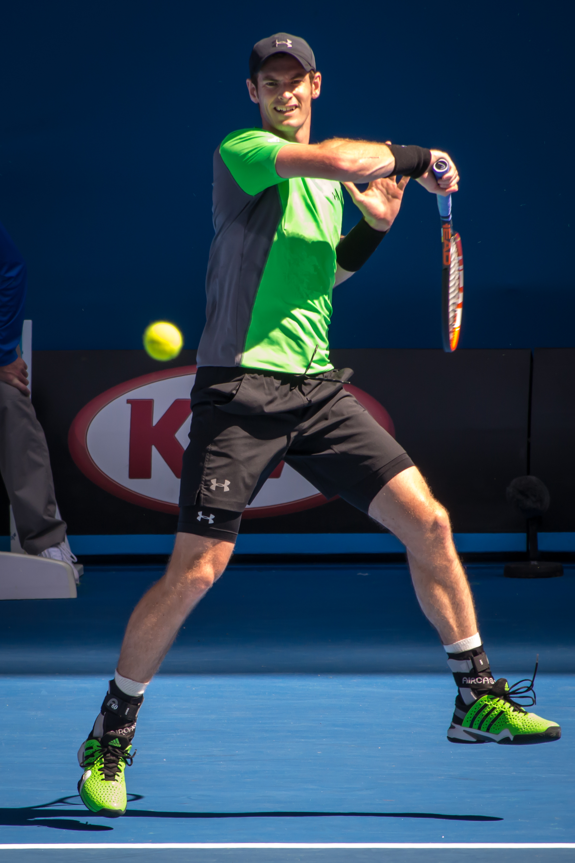 Andy Murray (GBR)[6] during his 3rd round straight-sets win over Joao Sousa (POR) at the 2015 Australian Open in Hisense Arena.